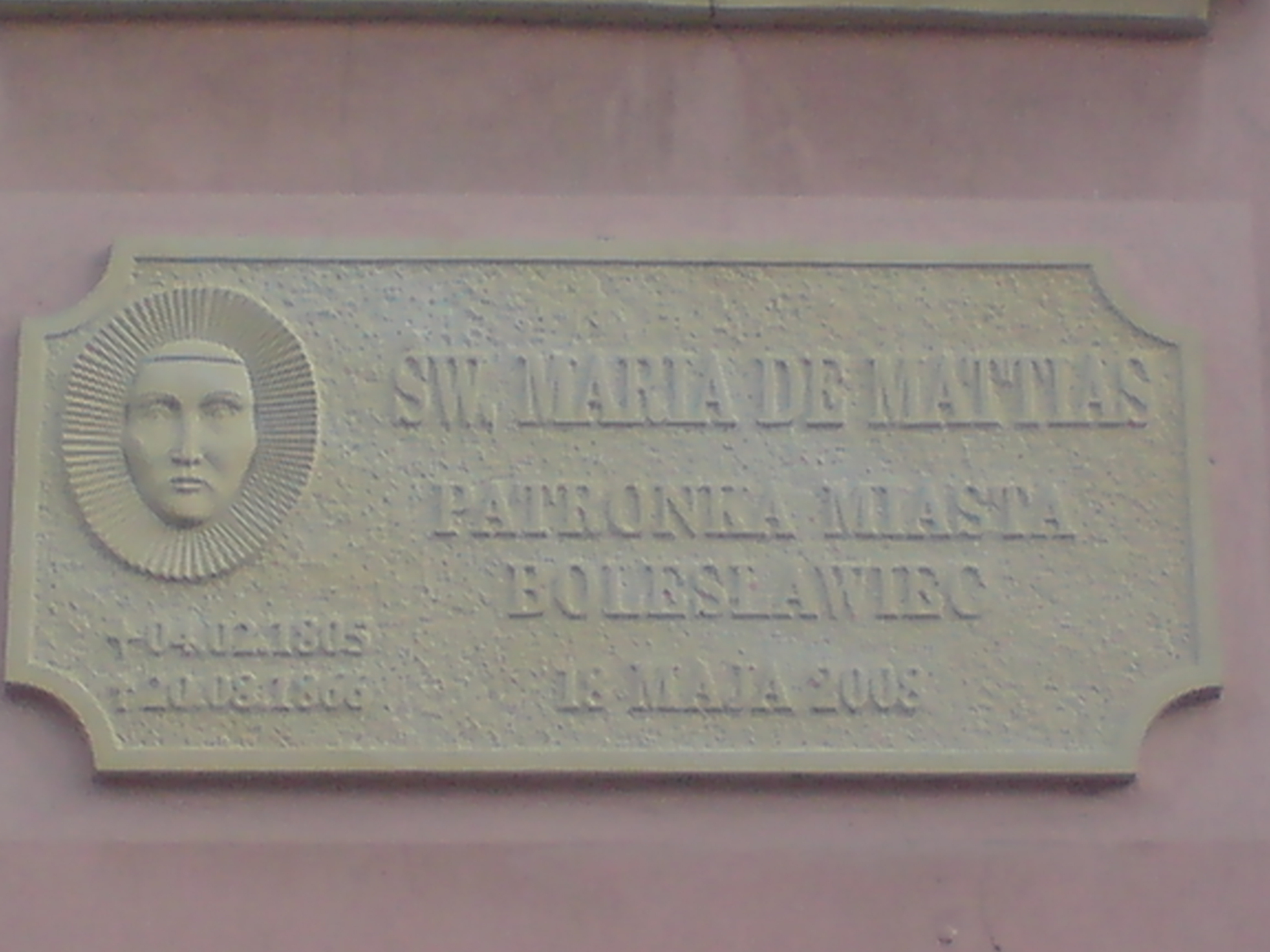 Memory desk at the St. Maria de Mattias at the Bolesławiec town holl.